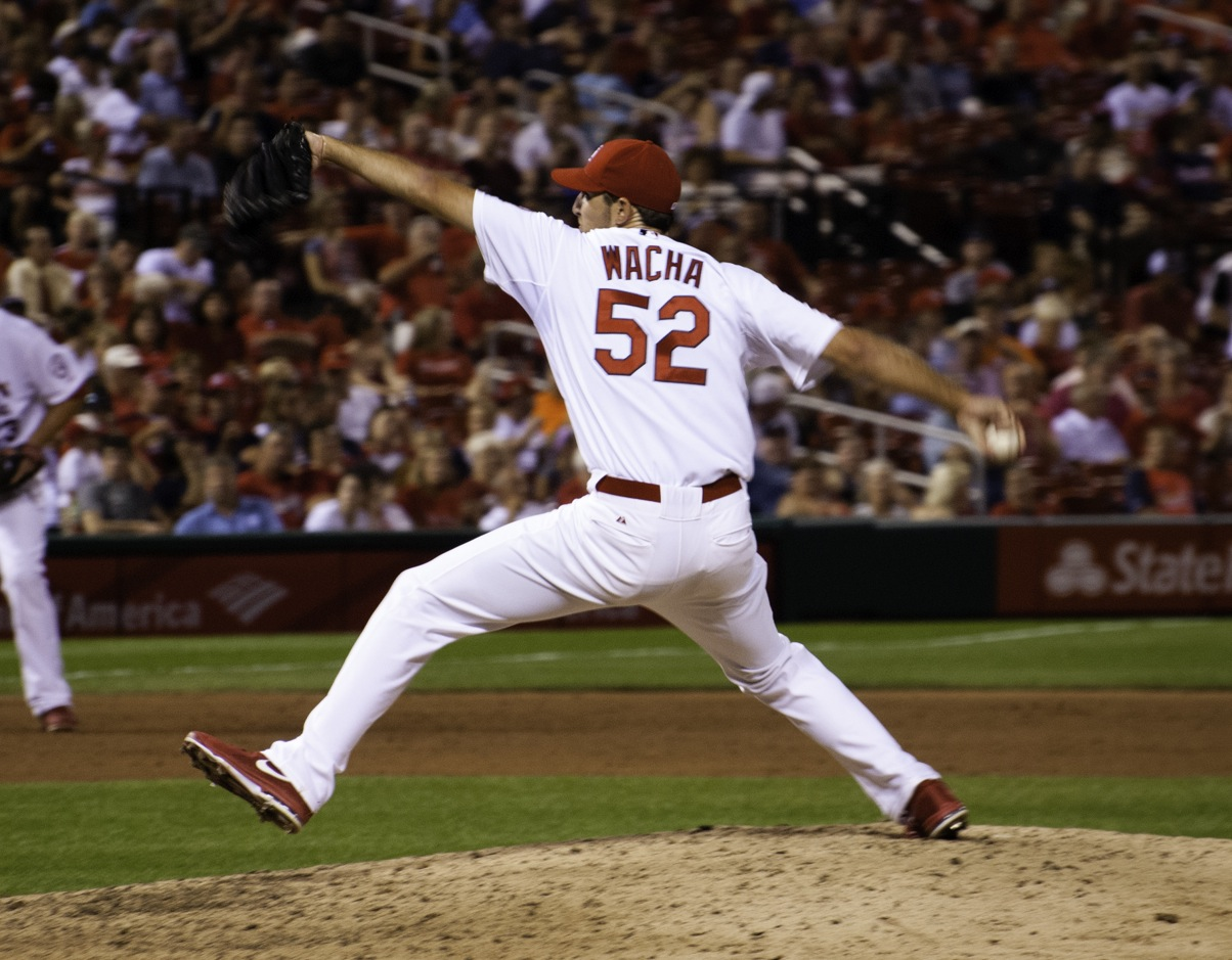 Michael Wacha in to pitch the 8th. 6-2 Cards, top 8 Cardinals vs Braves 8/22/2013 Busch Stadium III, St Louis